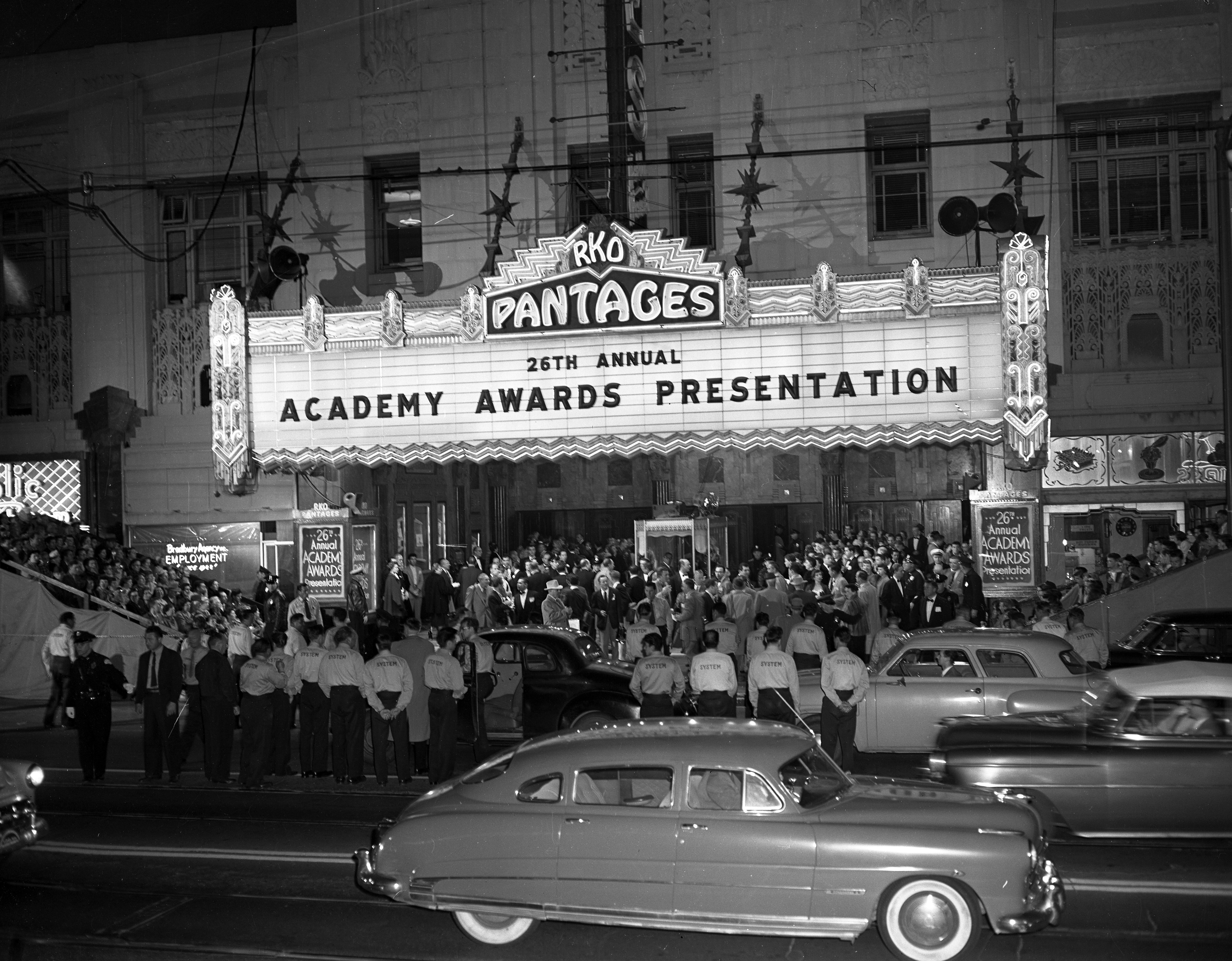 Outside the 26th Annual Academy Awards at RKO Pantages Theater in Los Angeles, Calif., 1954.